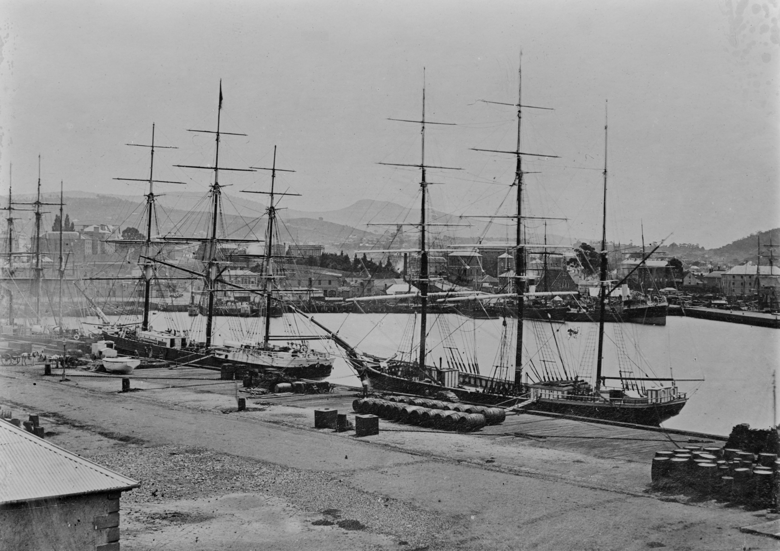 Original caption: "Harriet McGreggor on the right and Wagoola on the left." In the back ground the steamer Victoria.